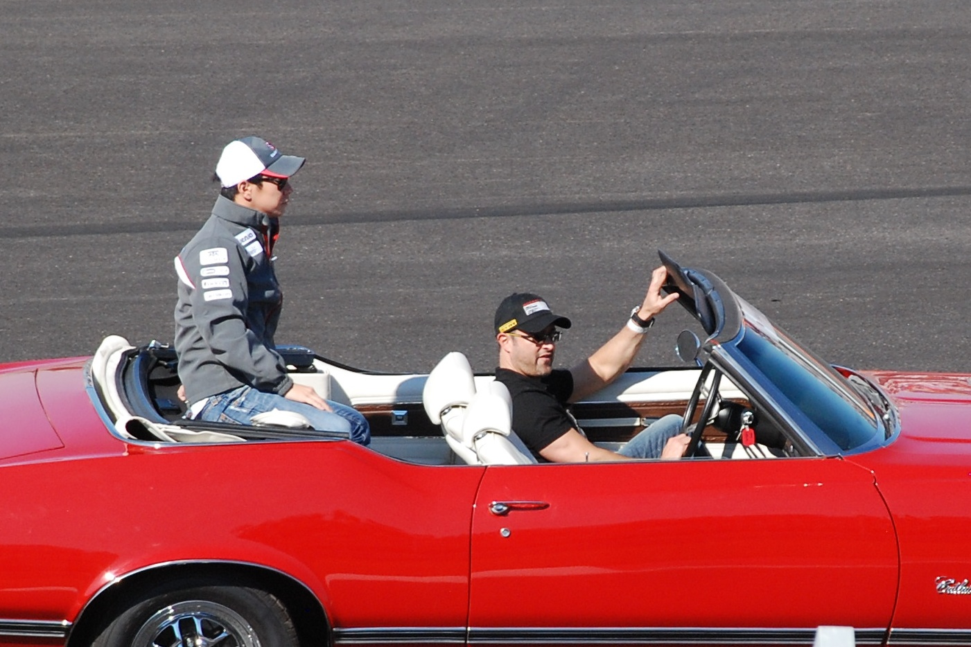 Kamui Kobayashi, United States Grand Prix, Austin 2012